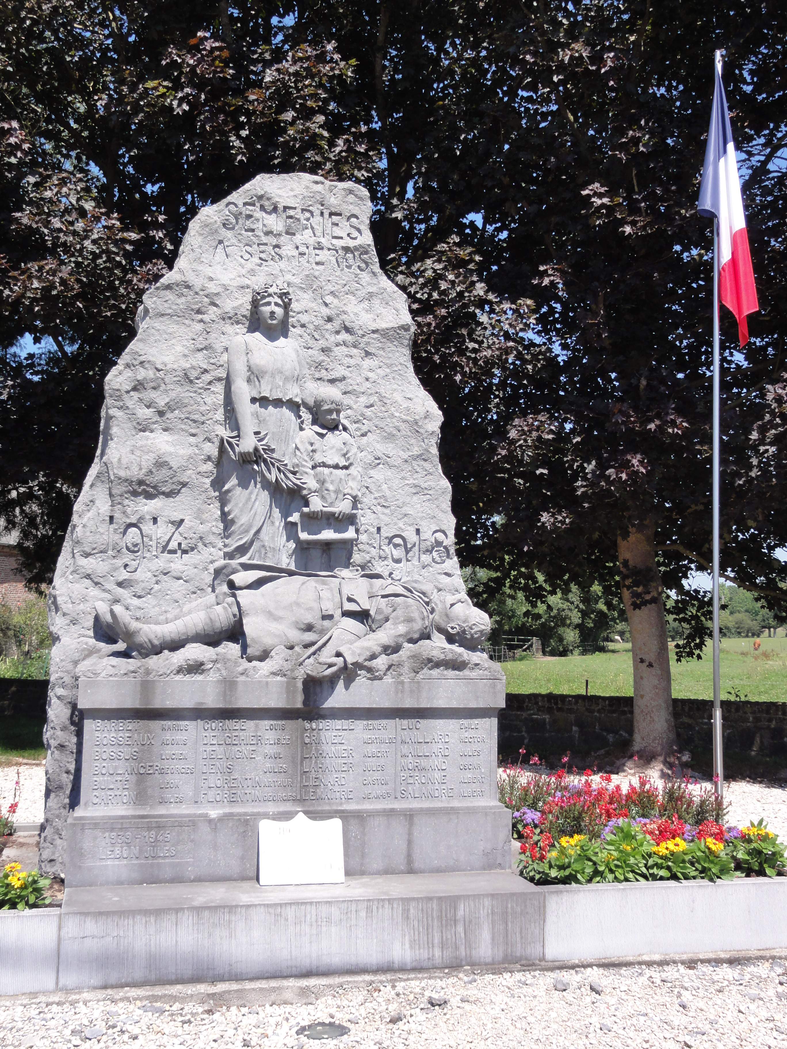 Sémeries (Nord, Fr) monument aux morts